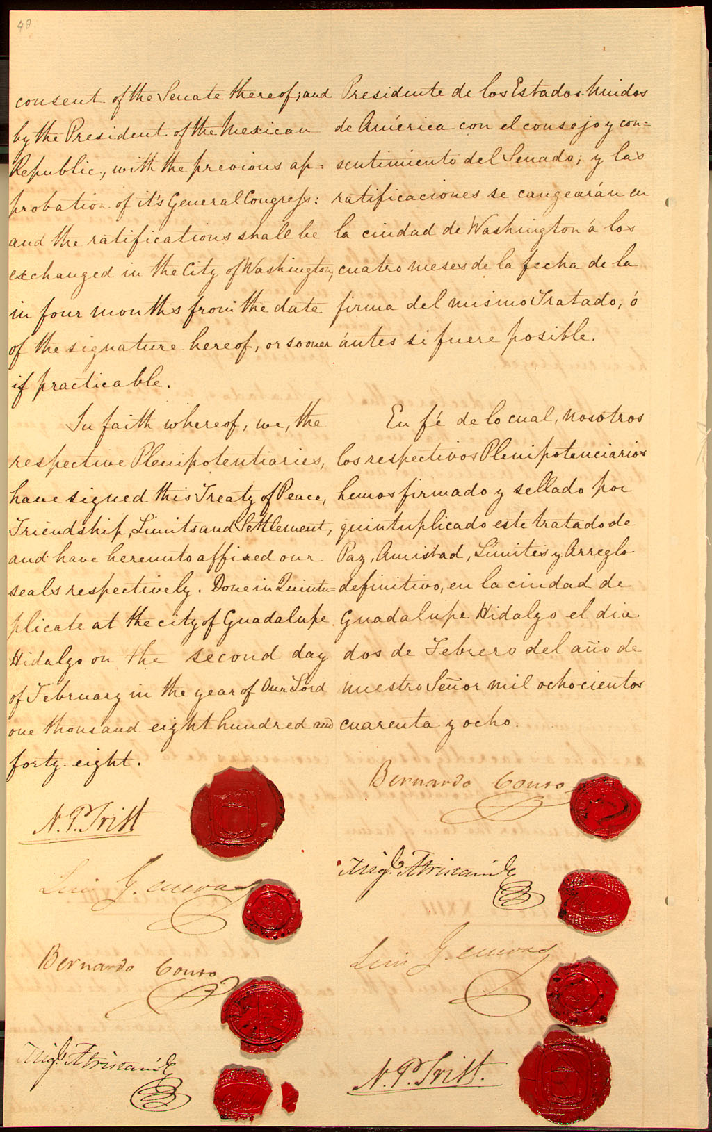 Original Treaty of Guadalupe Hidalgo, from the Library of Congress; last page of Treaty, with signatures and seals